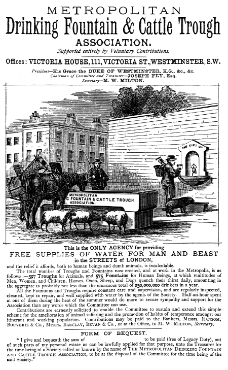 Metropolitan Drinking Fountain and Cattle Trough Advert, from Burke's Peerage